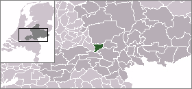 Locator map of Dutch municipalities in Gelderland (LocatieWageningen.png)